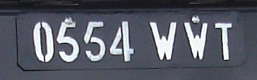 Temporary license plate from Madagascar